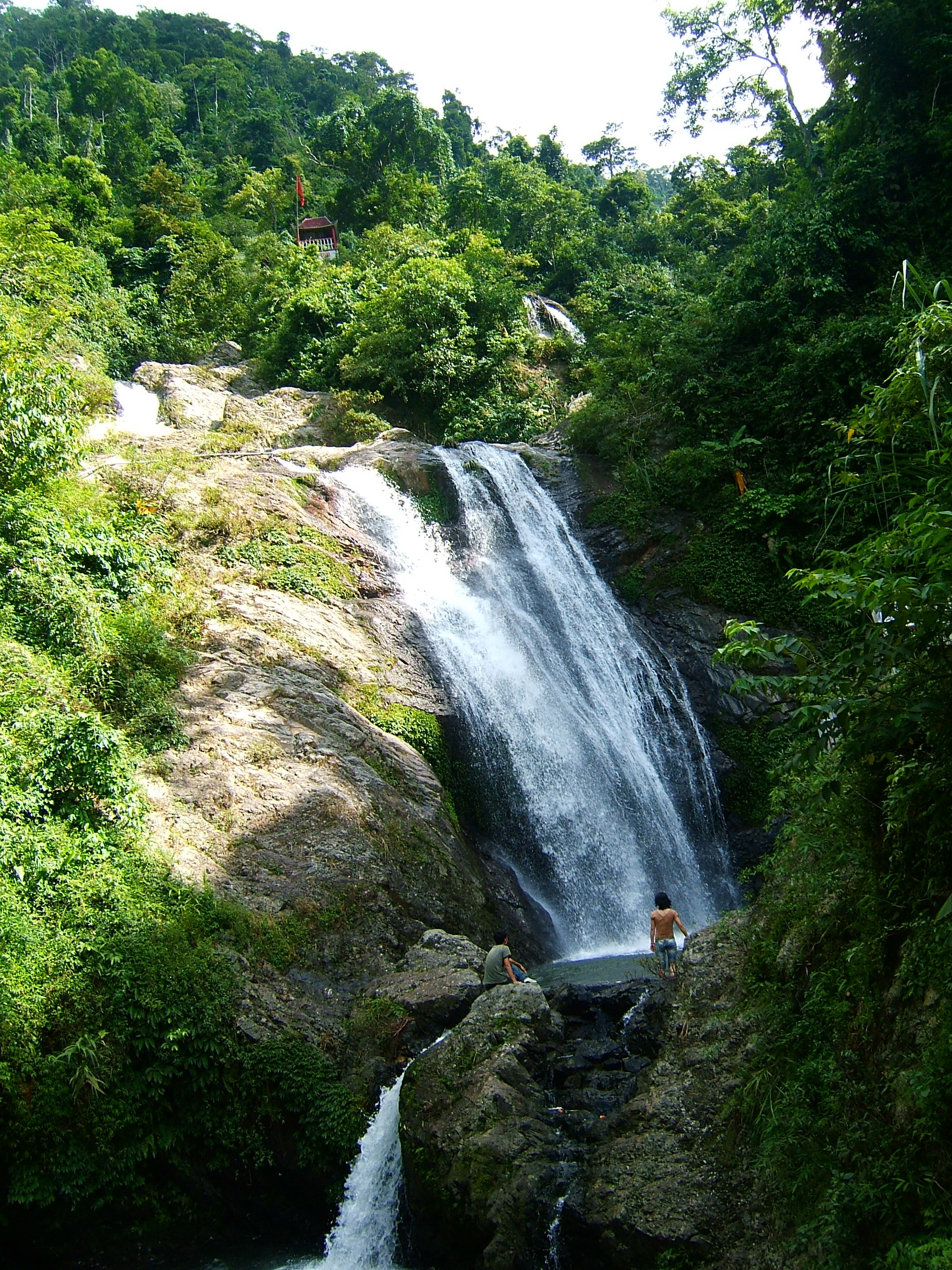 Tú Sơn waterfall at Kim Bôi District